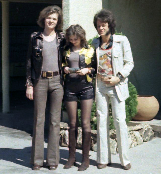 Anonymous man with Loretta Bezzini & Lars Jacob in clothing by Gul & Blå, as released by image creator Lars Jacob ProdPlace: San Diego, California